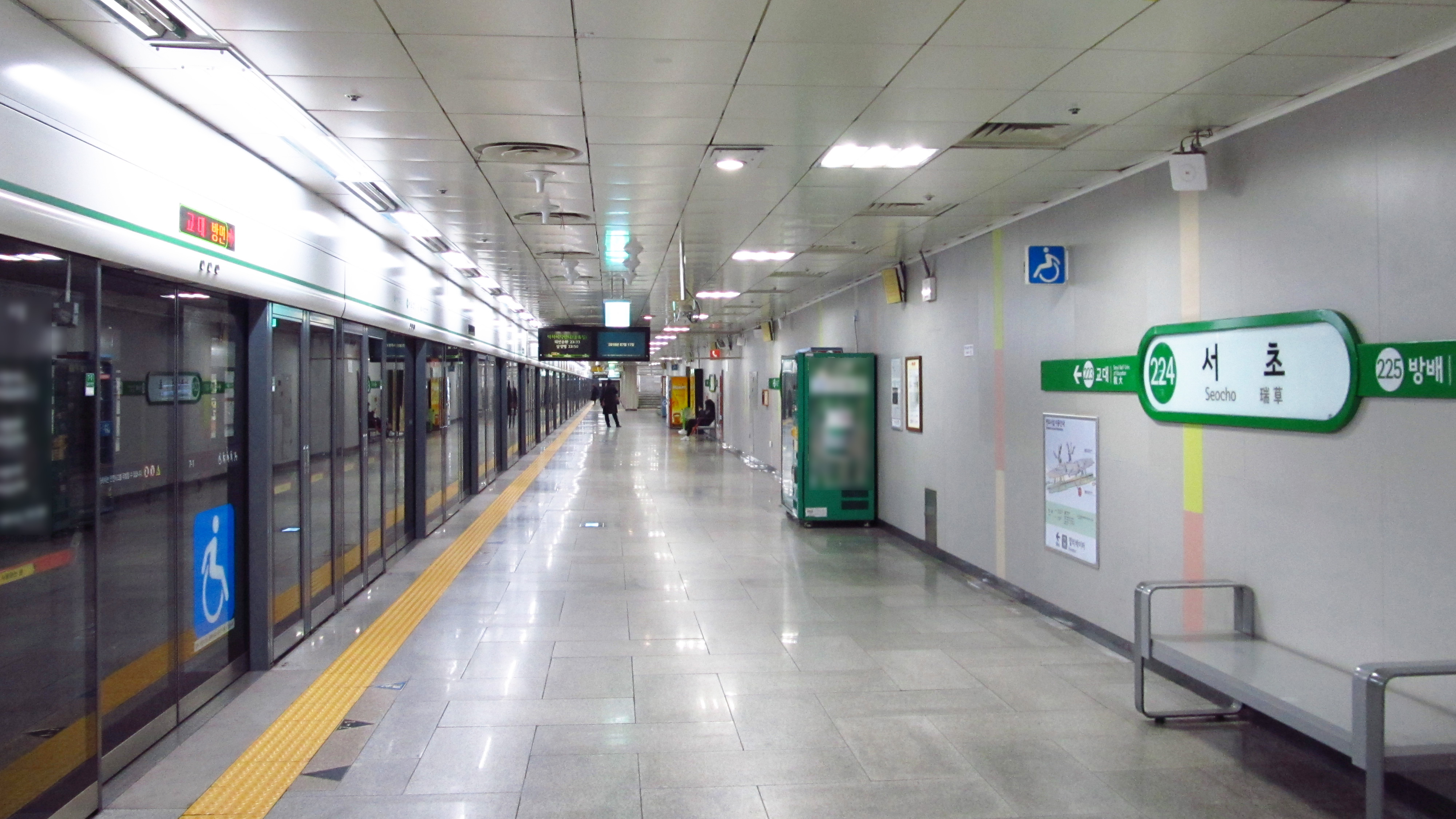 The platform at Seocho Station on Seoul Subway Line 2 in Seocho-gu, Seoul, Republic of Korea(South Korea)